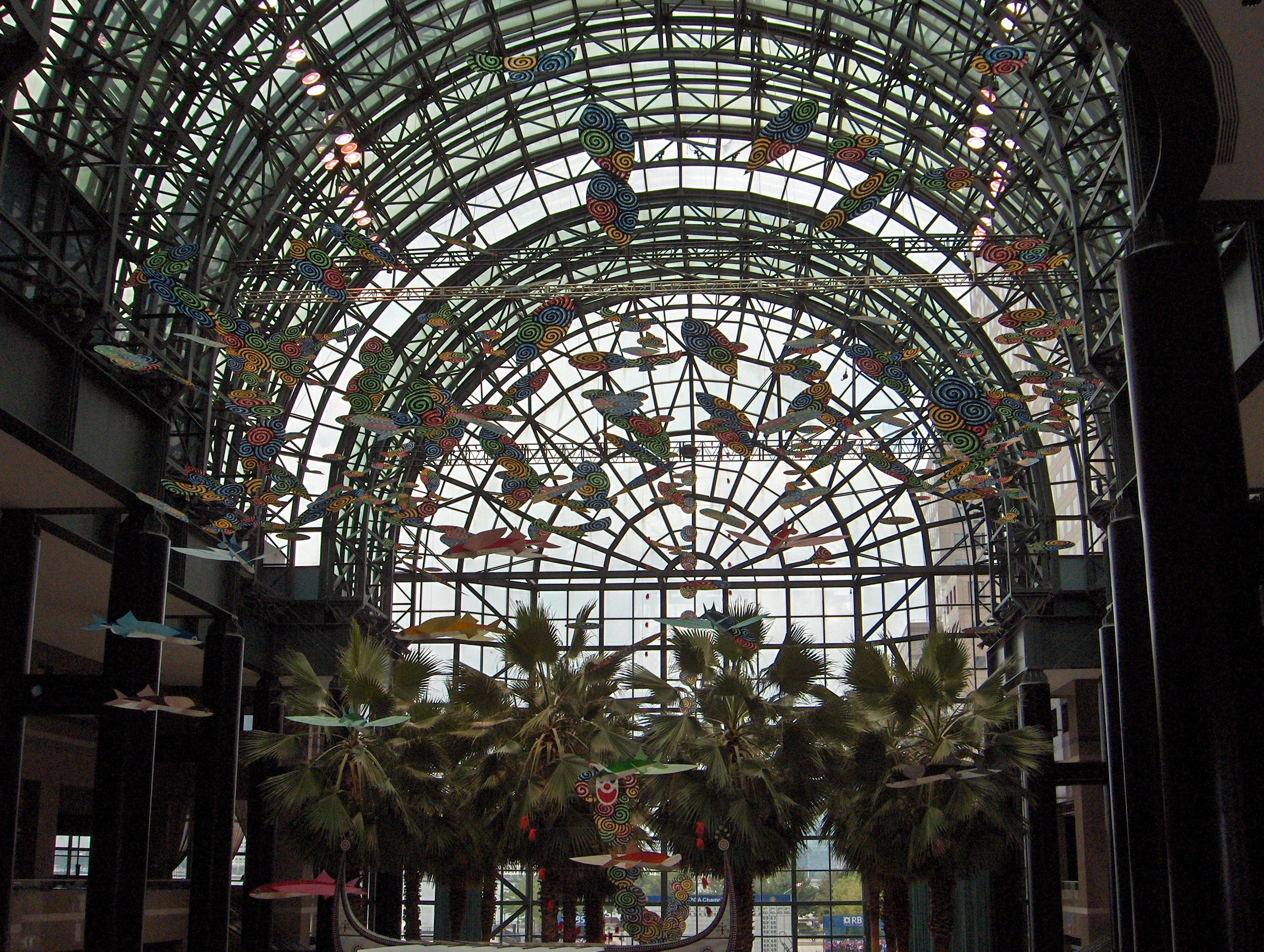 The Winter Garden, World Financial Center, New York City, USA